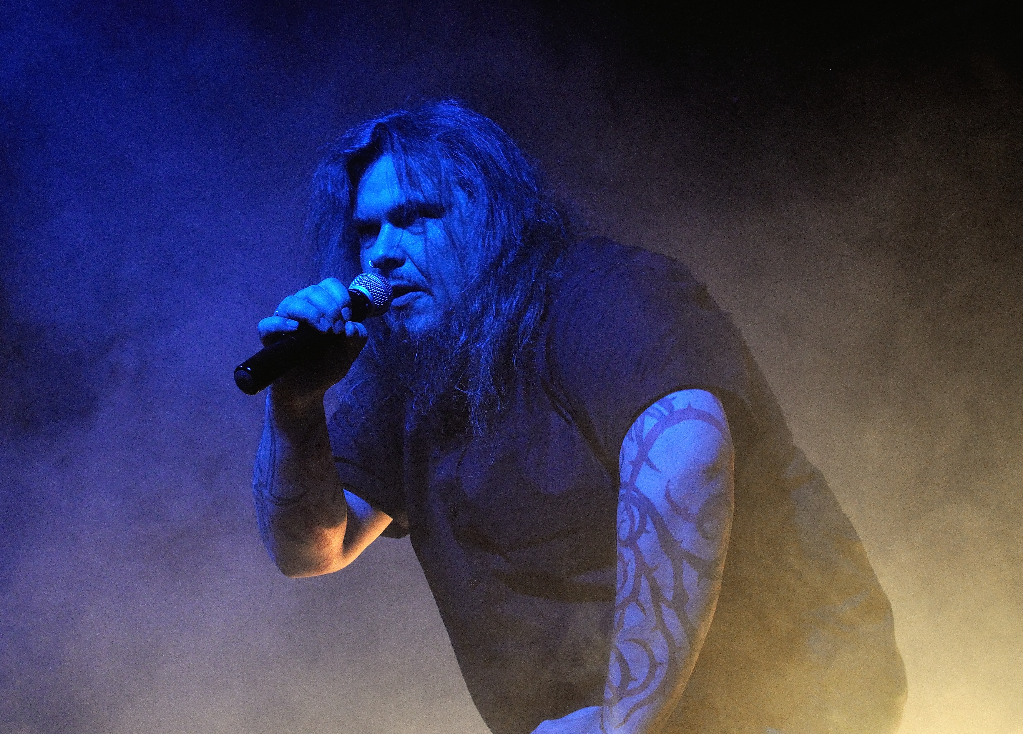 Eisregen at Hatefest 2015 in Berlin.